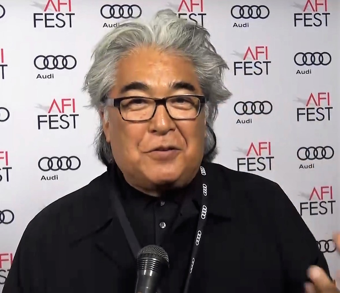 Steven Okazaki talks Mifune: The Last Samurai & how the hero inspired Star Wars & Steven Spielberg by Dulce Osuna